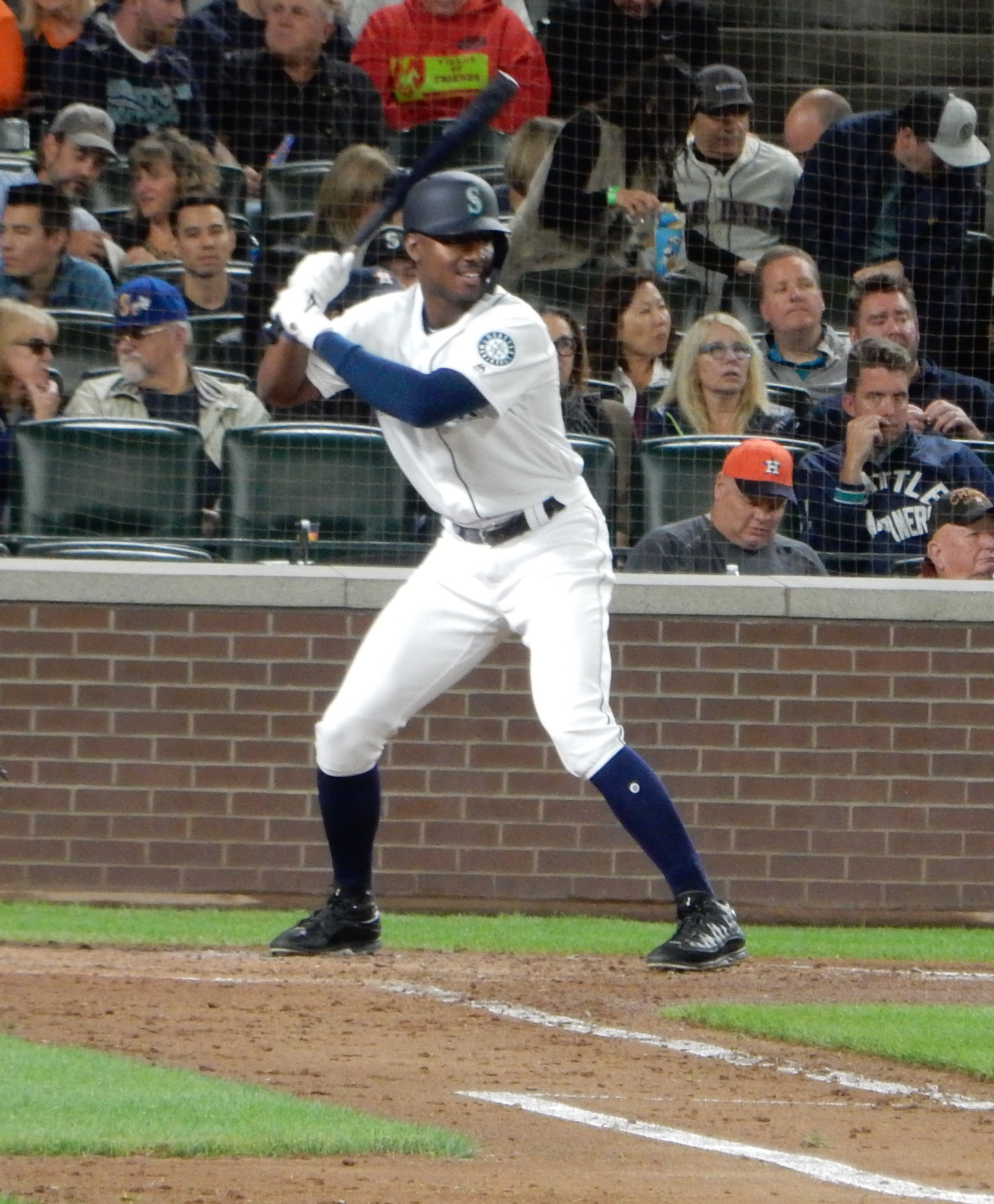 Kyle Lewis batting against the Houston Astros